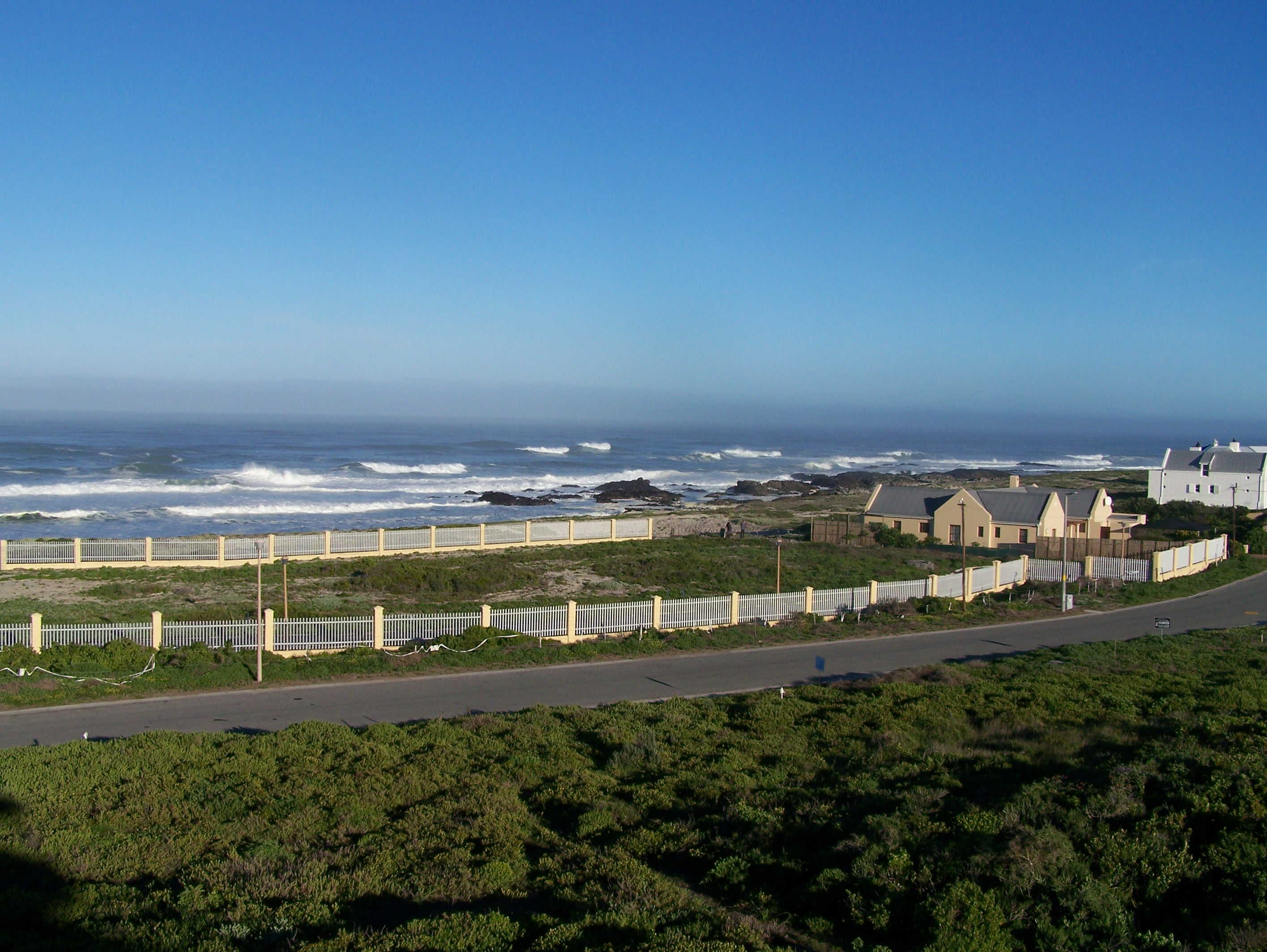 View of Yzerfontein